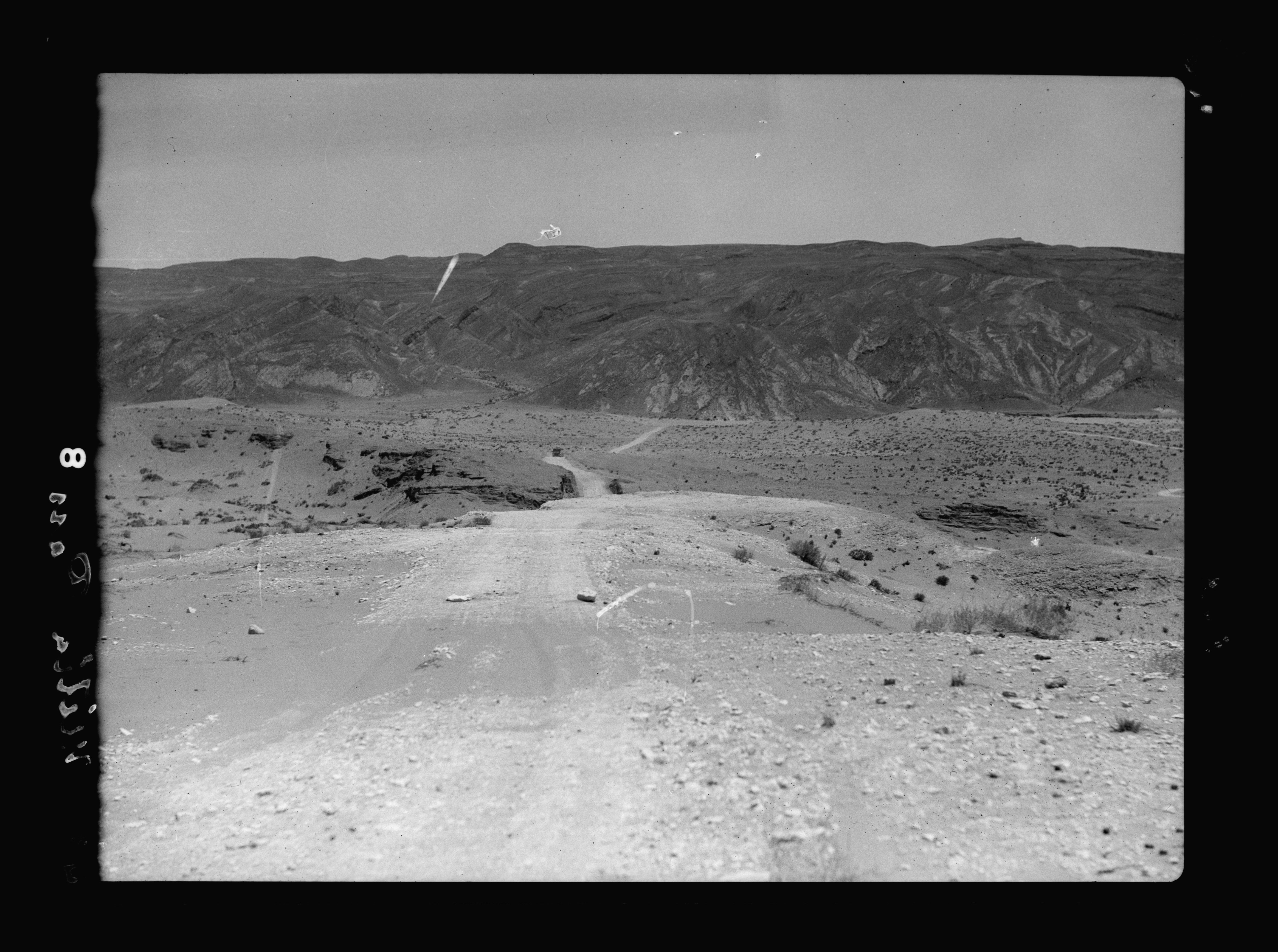 Title: To Sinai by car. The Mitla pass looking east from the plain Abstract/medium: G. Eric and Edith Matson Photograph Collection Physical description: 1 negative